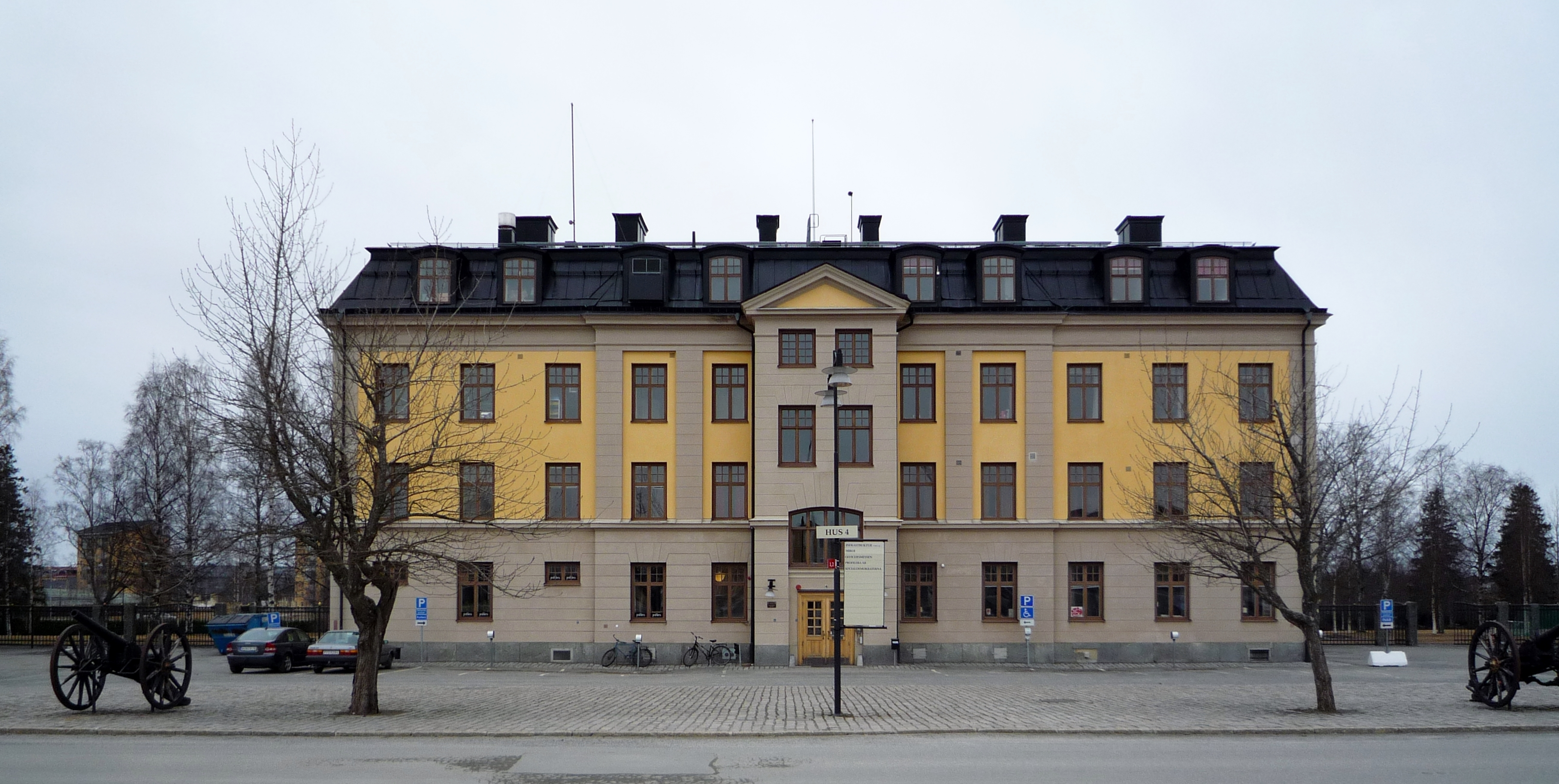 Umestan, entrance east